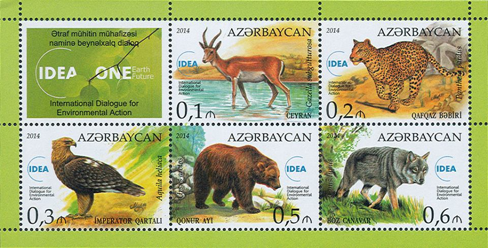 International Dialogue for Environmental Action